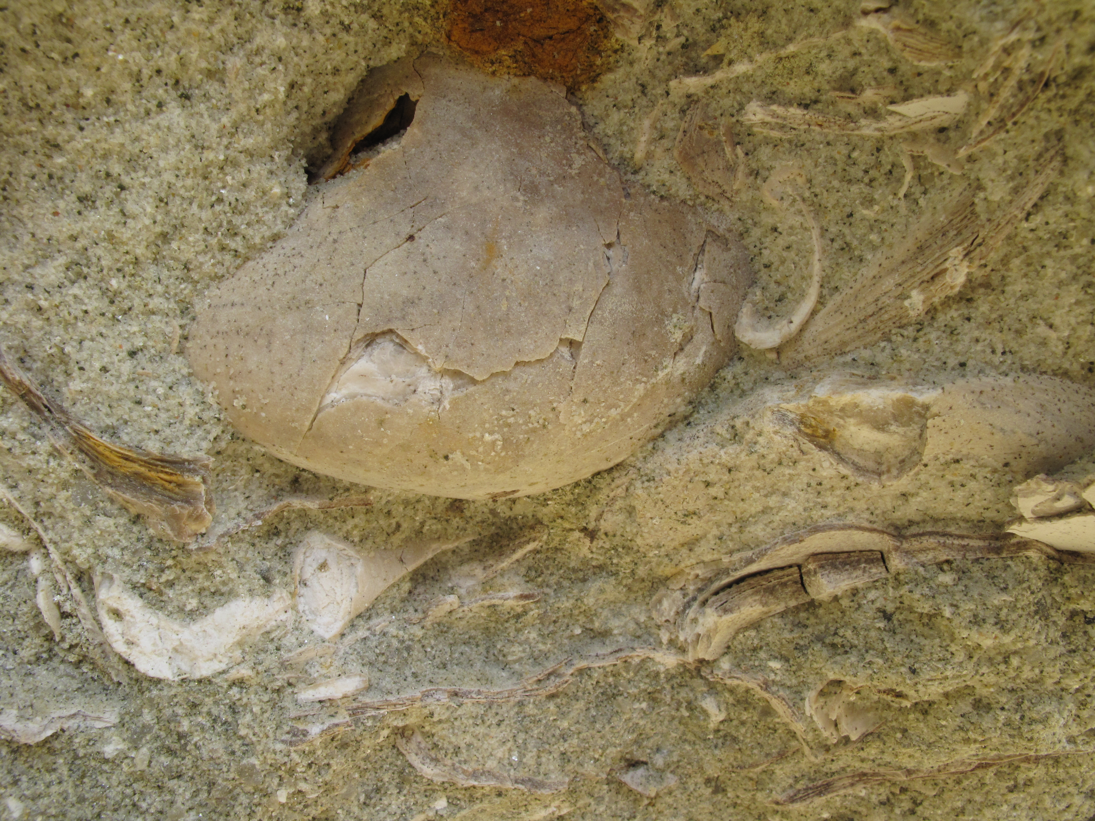 Shells of Rhynchostreon suborbiculatum in natural monument Lom u Červených Peček, Kolín District, Czech Republic.